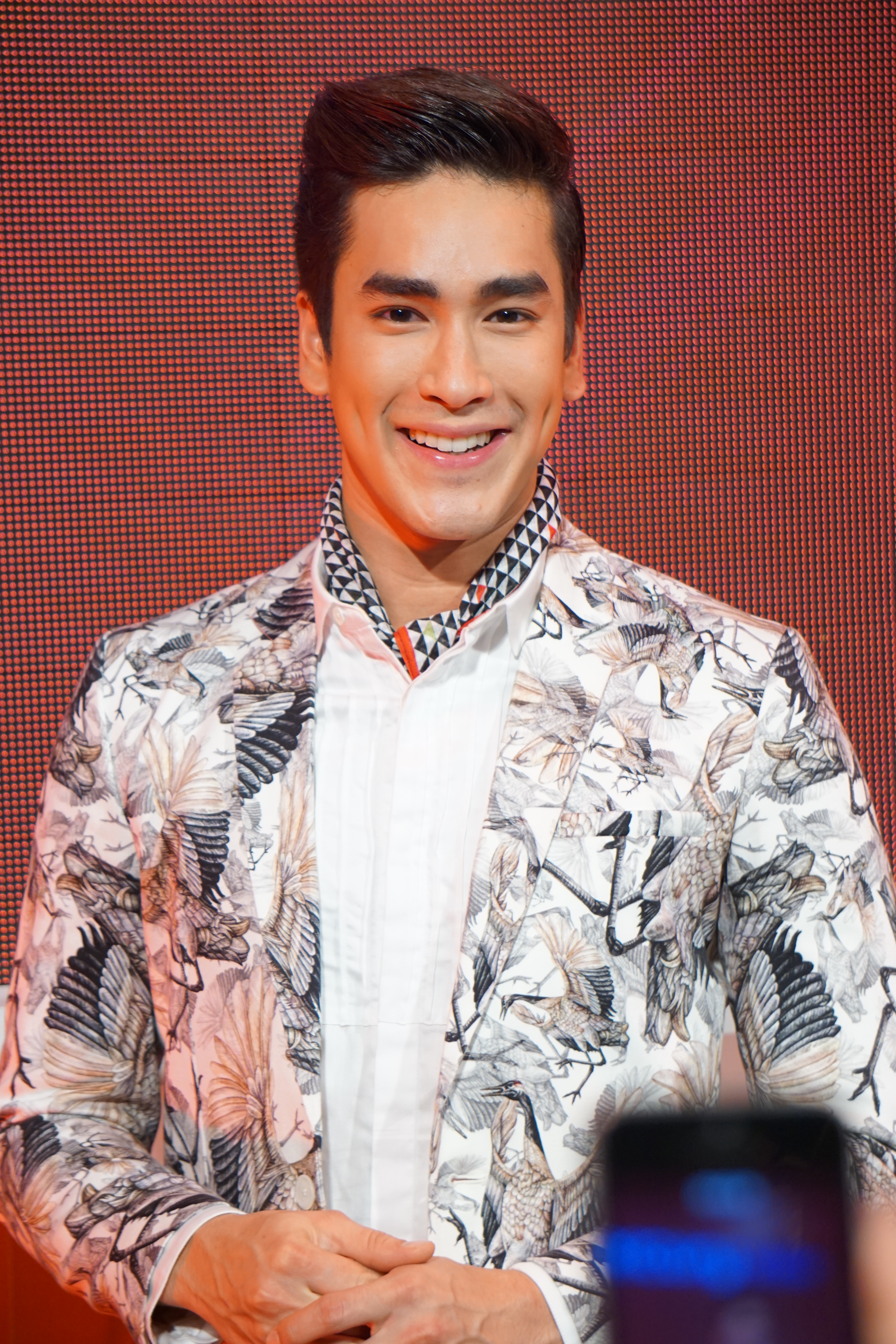 Nadech at Mercury Ville in 2014